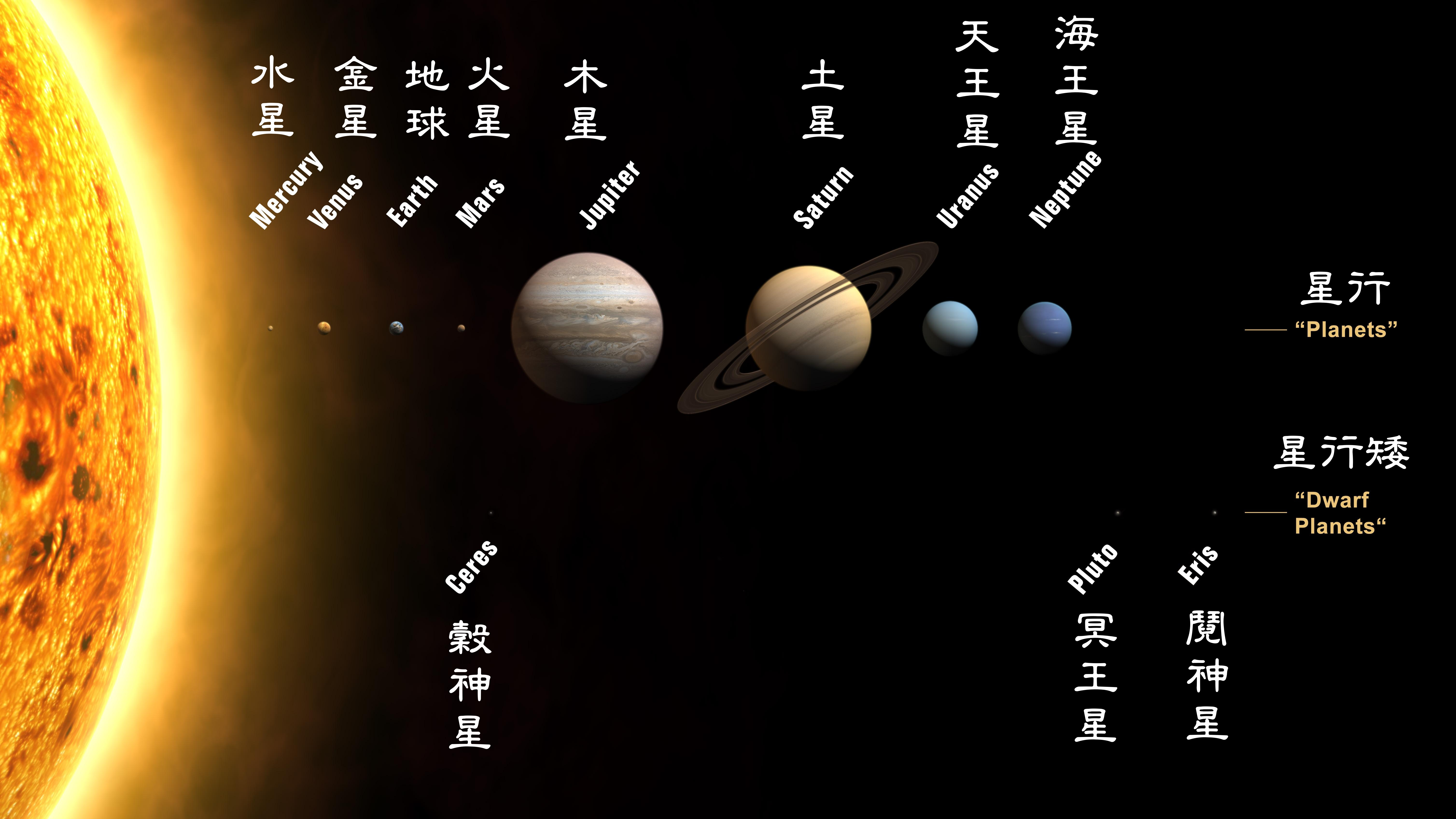 Original description: (This is the same as NewSolarSystem.jpg except I changed 2003UB313 to Eris.)